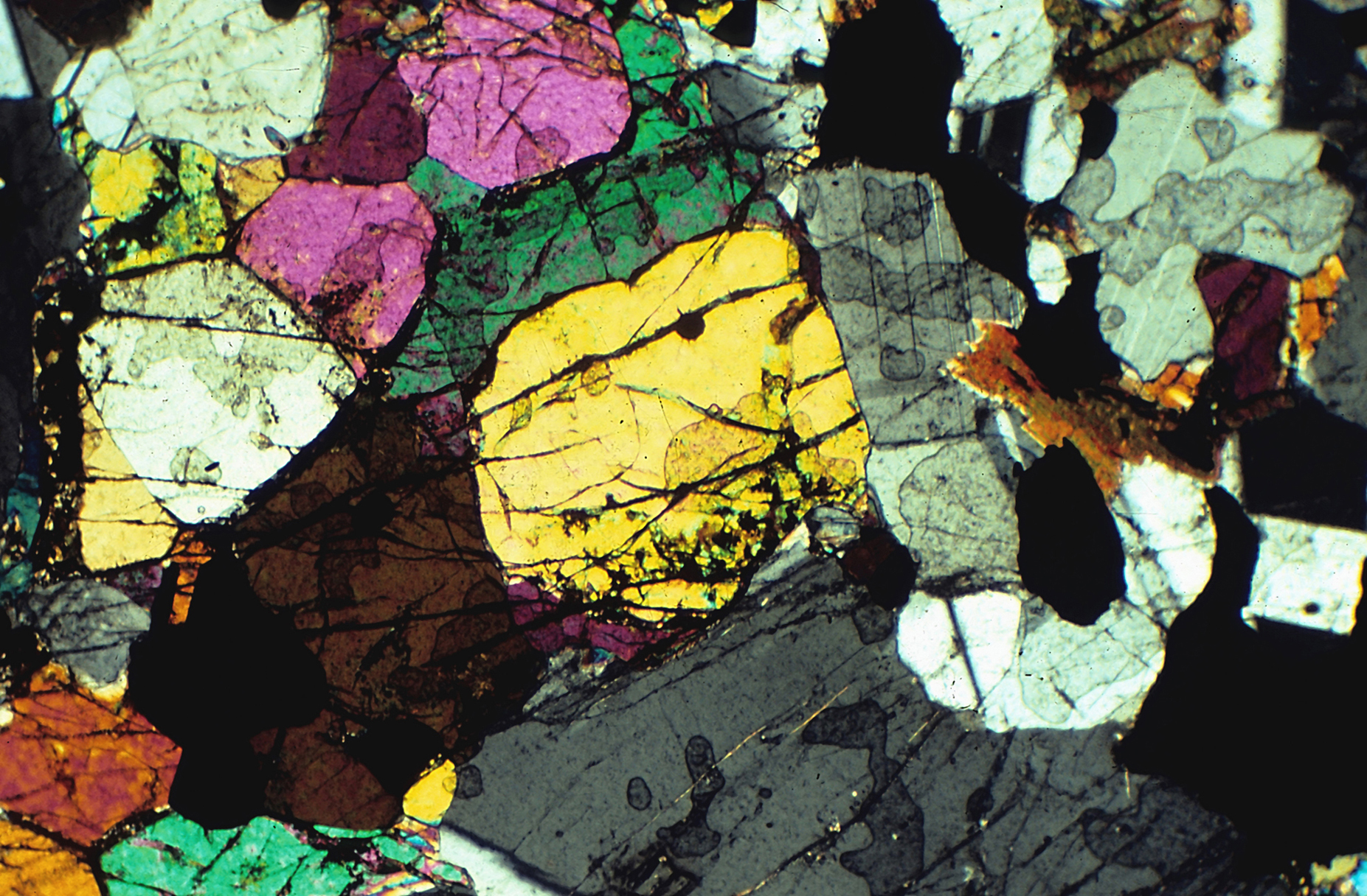 Bronzitite - a thin section of a rock made of olivine and pyroxene. Cross polarized light. Uploaded on April 20, 2005 by kevinzim